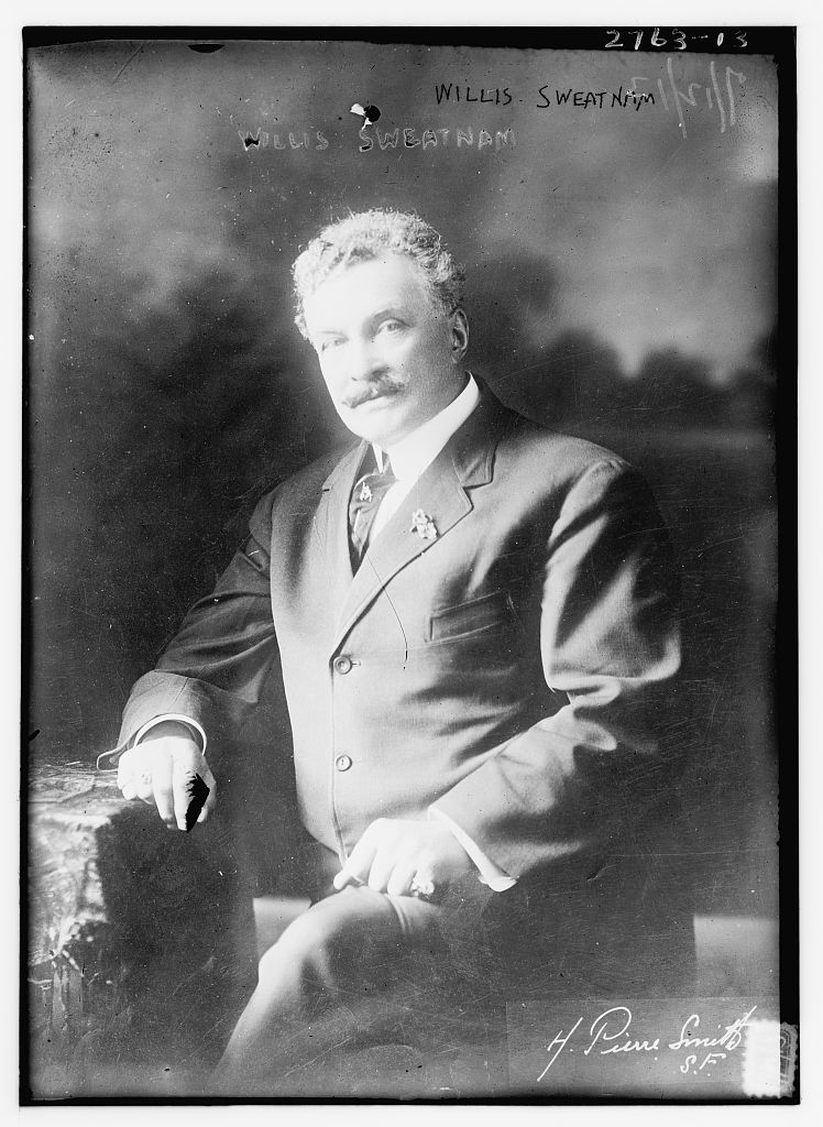 Bain News Service,, publisher. Willis Sweatnam [no date recorded on caption card] 1 negative : glass ; 5 x 7 in. or smaller. Notes: Title from unverified data provided by the Bain News Service on the negatives or caption cards. Forms part of: George Grantham Bain Collection (Library of Congress). Format: Glass negatives. Repository: Library of Congress, Prints and Photographs Division, Washington, D.C. 20540 USA, General information about the Bain Collection is available at Persistent URL: Call Number: LC-B2- 2763-13